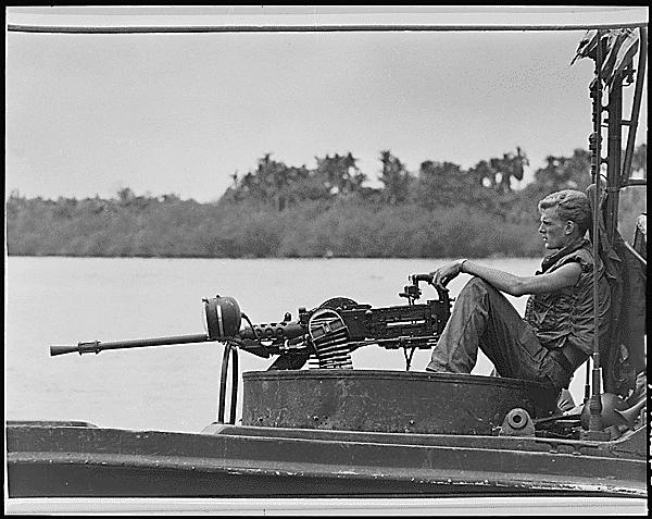 A U.S. Navy river patrol boat (PBR) crewman maintains vigilance at the .50-caliber machine gun during the boat's day-long patrol on the Go Cong River., 01/1967